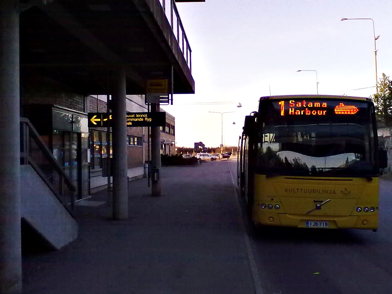 The Bus number 1 at Turku Aiport waiting for passengers. Its destination is ferry terminals at seaport and it travels via marketsquare in the city centre of Turku. Volvo 8700 LE 6x2 bus (reg. IJB-718, #84) with Volvo B12BLE chassis. Built 2009, Linjaliikenne V. Nyholm Oy (TLO Nyholm) from Turku operator.